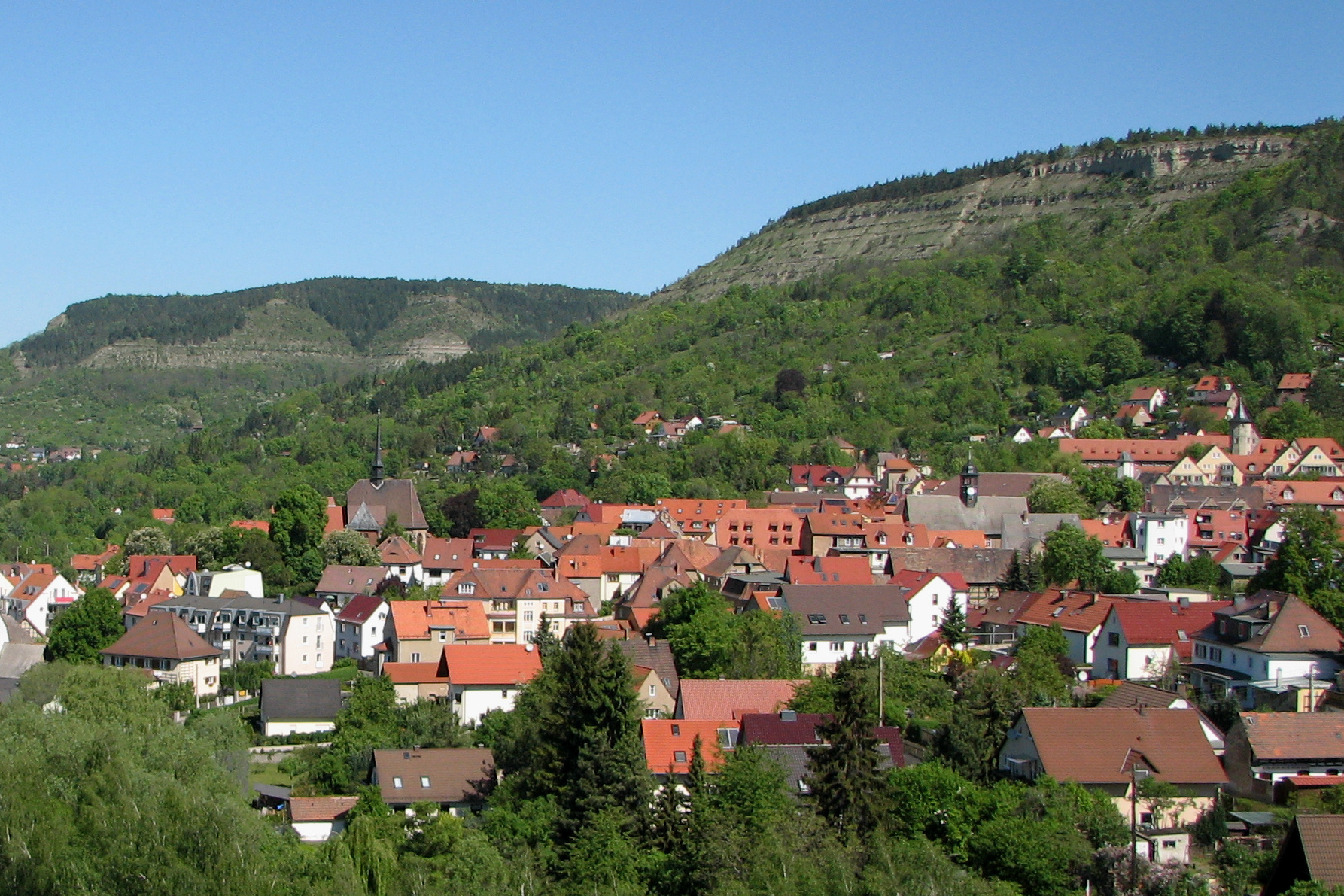 City of Lobeda: Terrestric panorama view